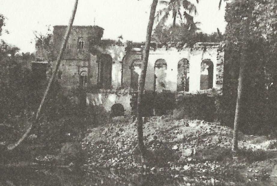 The ancestral house of Priyanath Bose in Chhota Jagulia in 24 Parganas district in Bengal, non-extant as of 1938.